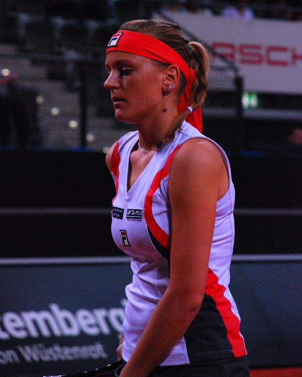 Agnes Szavay in tennis action against Dinara Safina at the Stuttgart Porsche Cup 2010